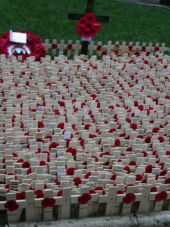 Memorials outside London's Westminster Abbey for Remembrance Day, 2002.